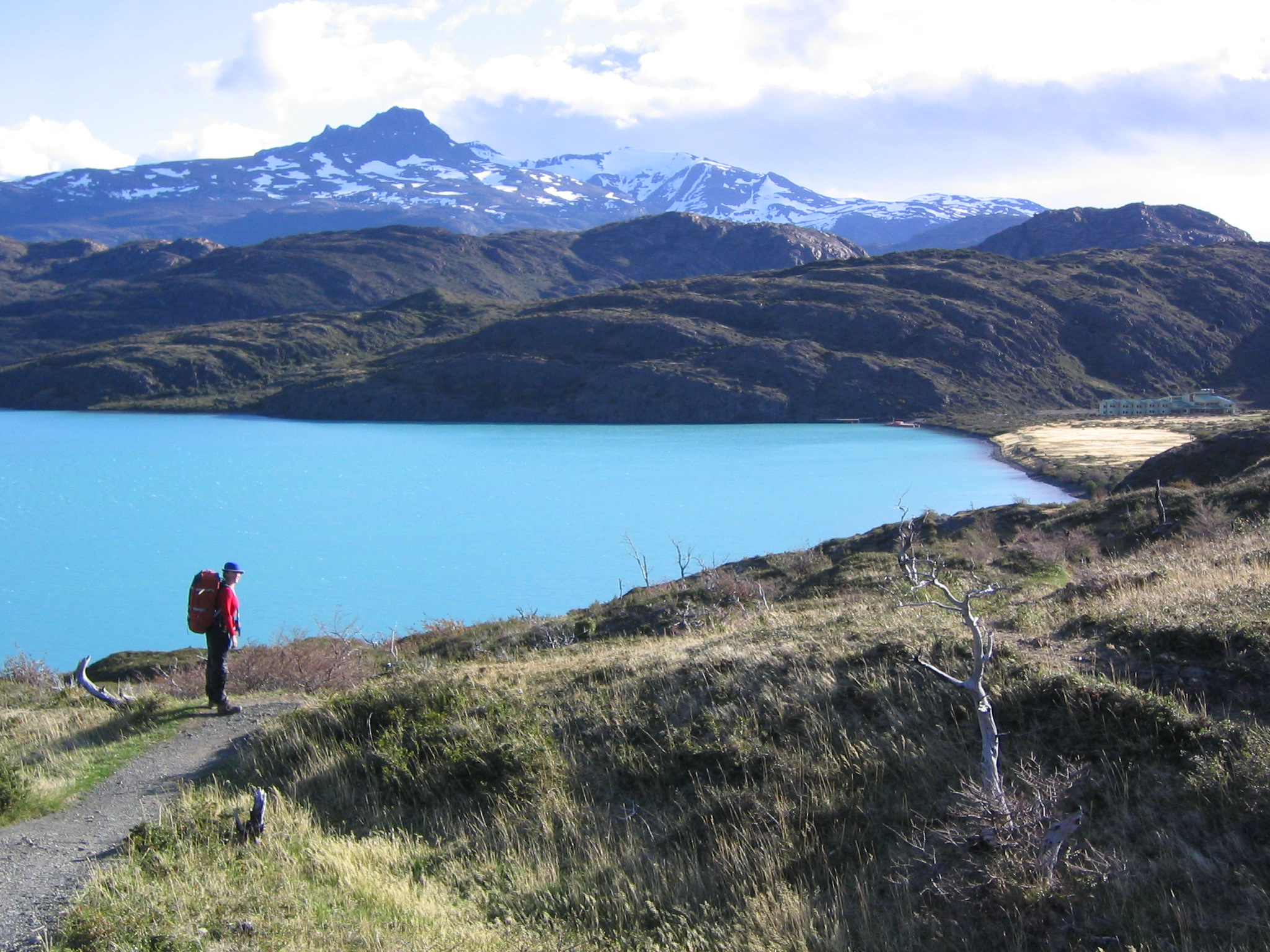 Emily approaching Lago Pehoé in Torres del Paine, Chile, after walking about 27km that day. One kilometre to go until we got to Refugio Pehoé (on the right)!